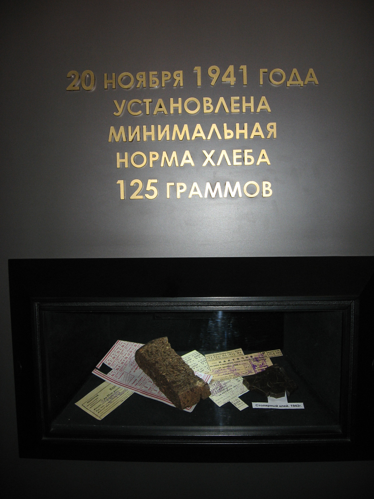 Minimal norm of bread during blocation of Leningrad